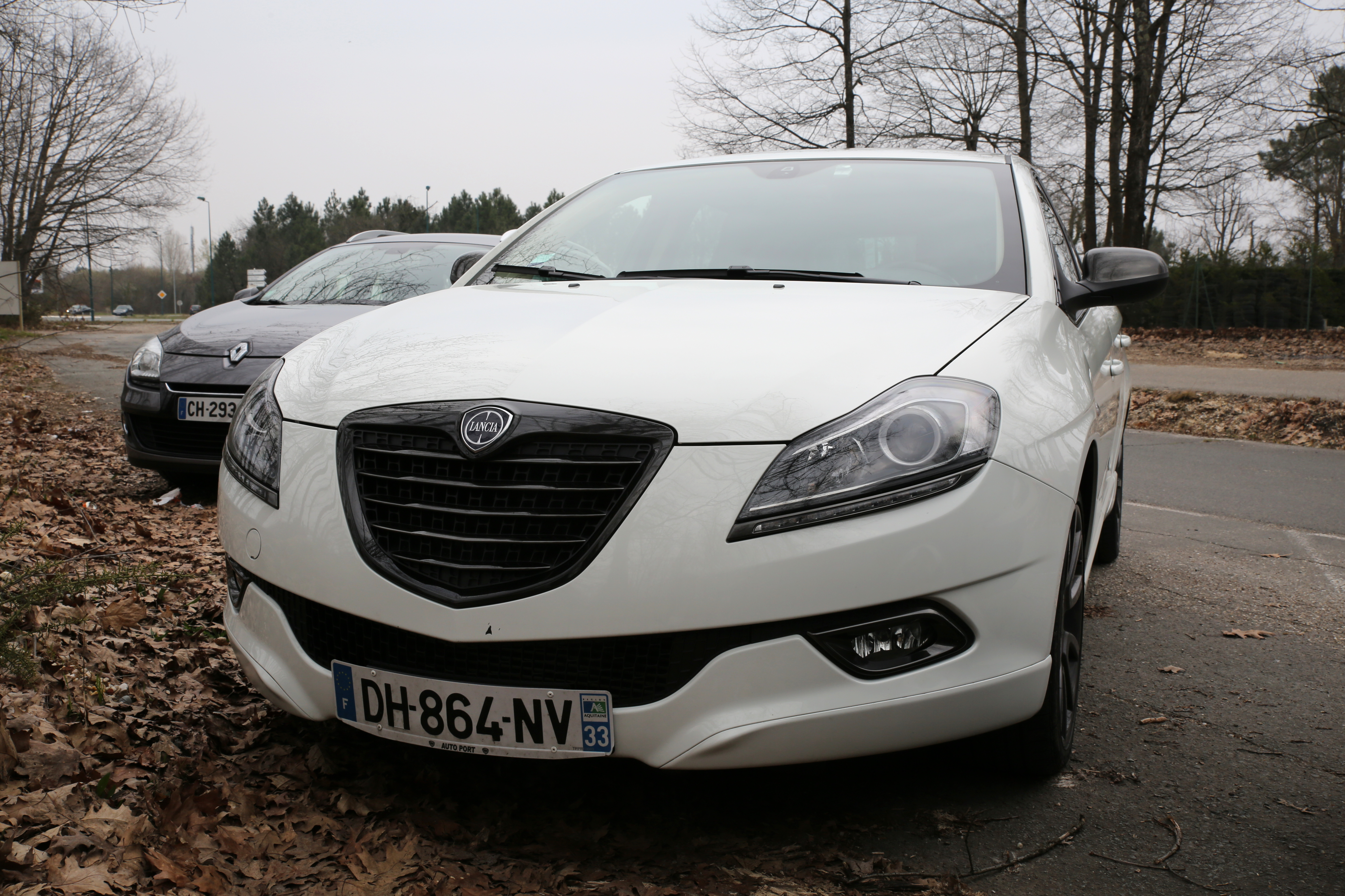 Lancia Delta